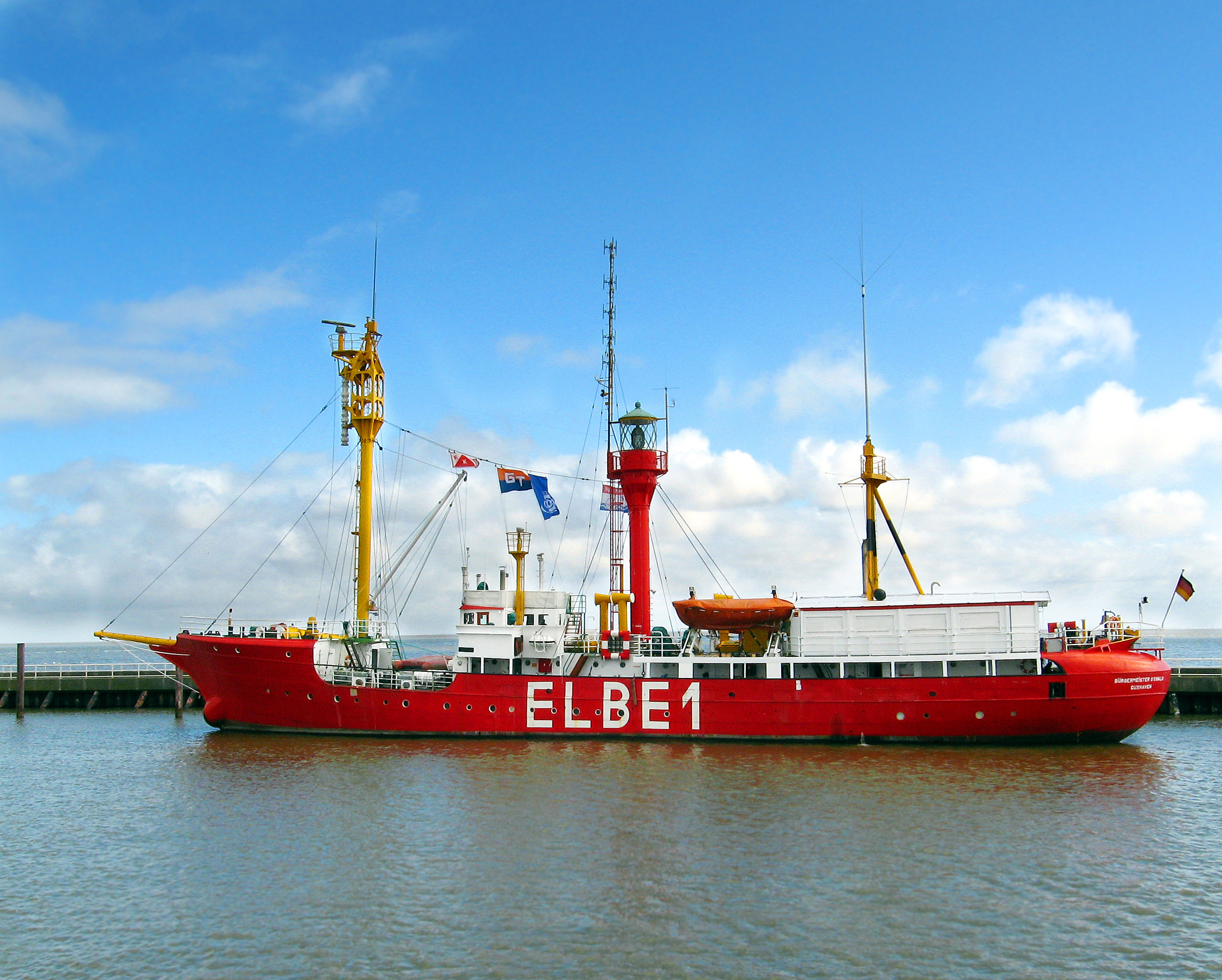 Lightvessel